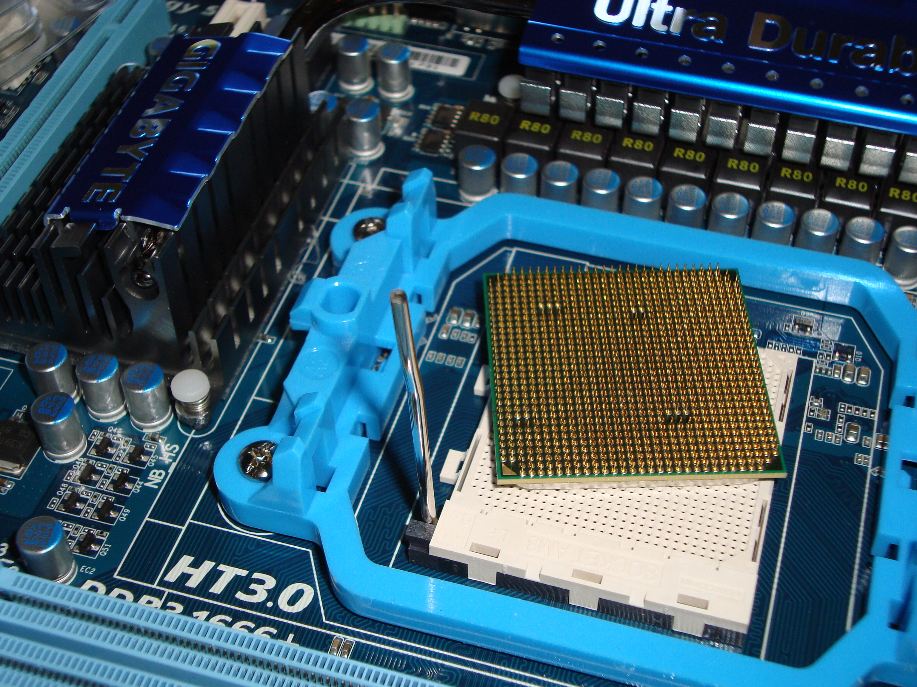 An AM3 Socket for AMD central processing units (CPU) with an AMD Phenom II X3 720 Black Edition CPU